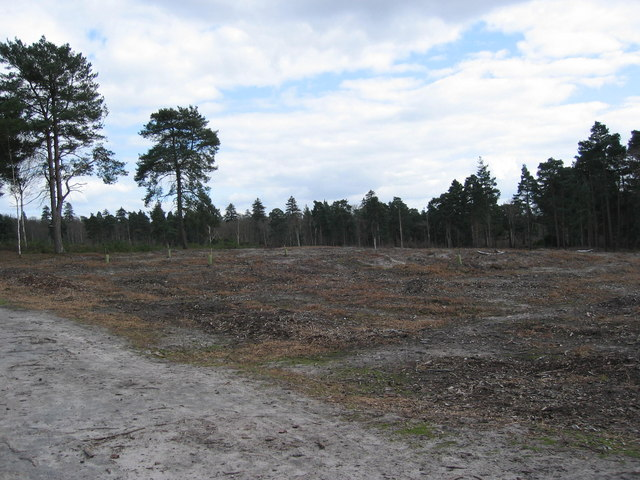 Ockham Common heath maintenance These sandy soils are home to many of our threatened heathland species - lizards, snakes, birds and insects. If they are not actively maintained, birch, pine, and rhododendron invade leading to local extinctions. The clearance shown in this photo may look devastated, heather will quickly re-establish.